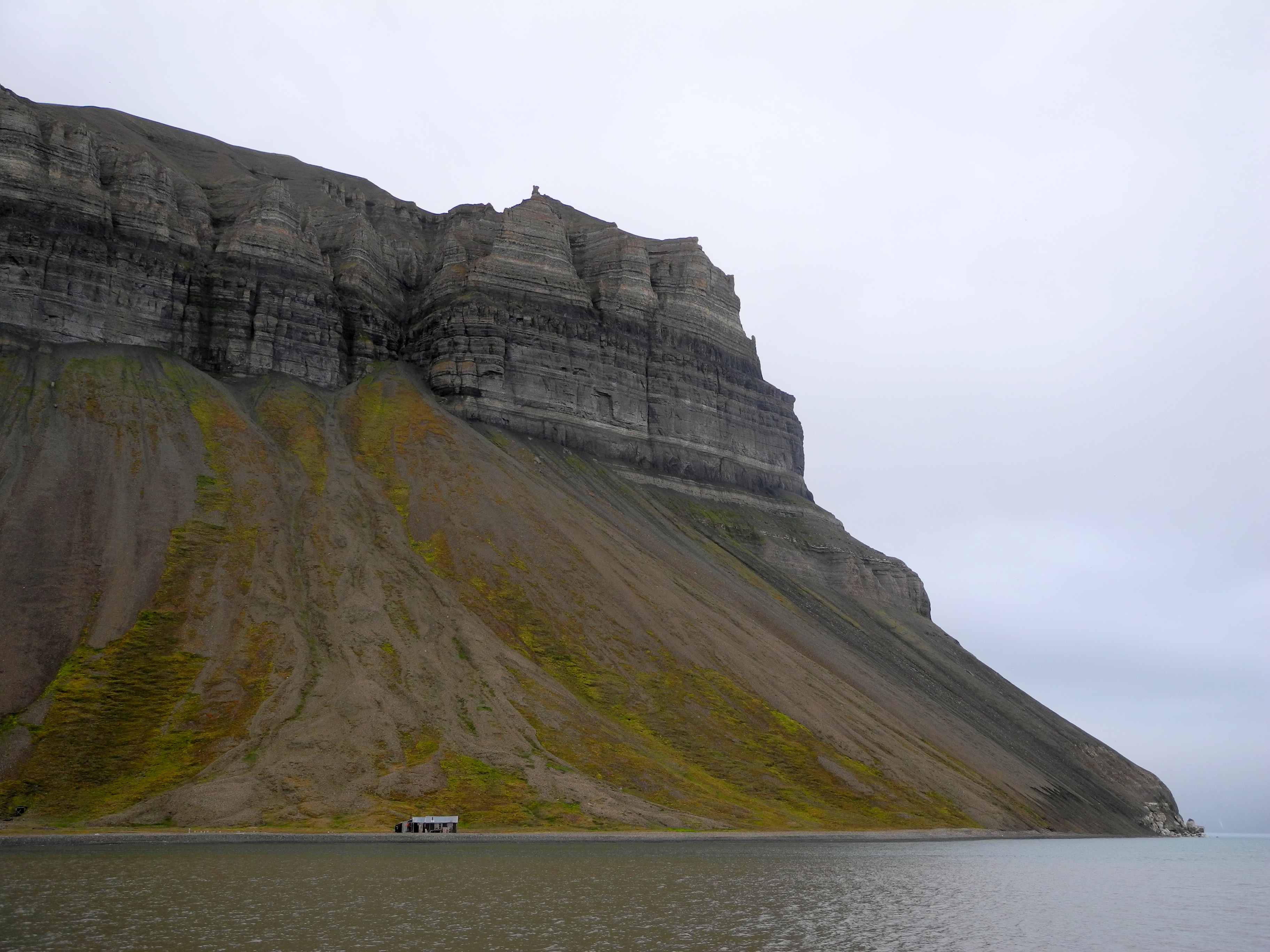 Skansbukta, a bay in Dickson Land, part of the Billefjorden.